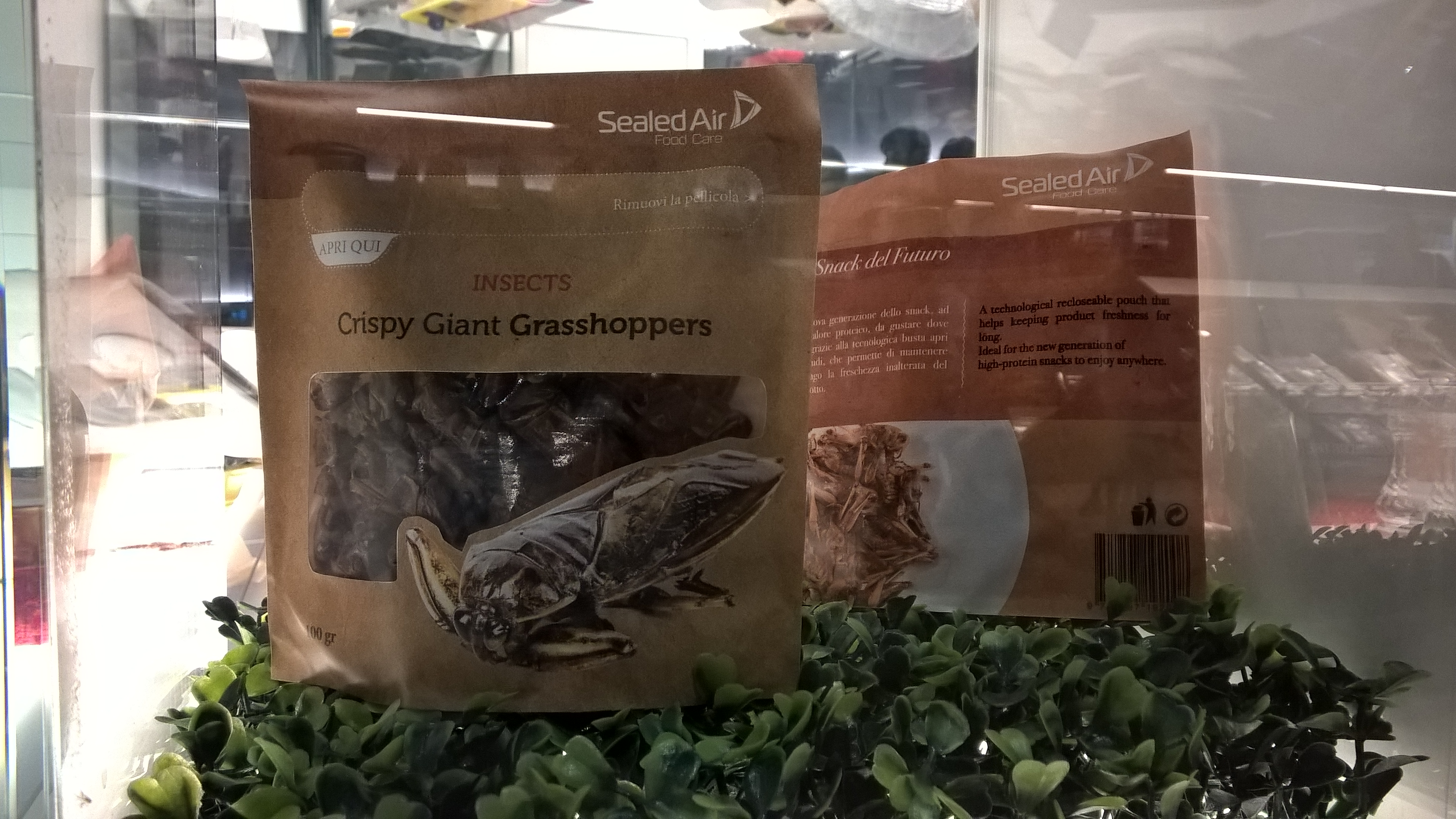 An insects package as shown at Future Food District at Expo 2015 Milano